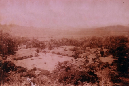 Picture of Tejutepeque City in 1942